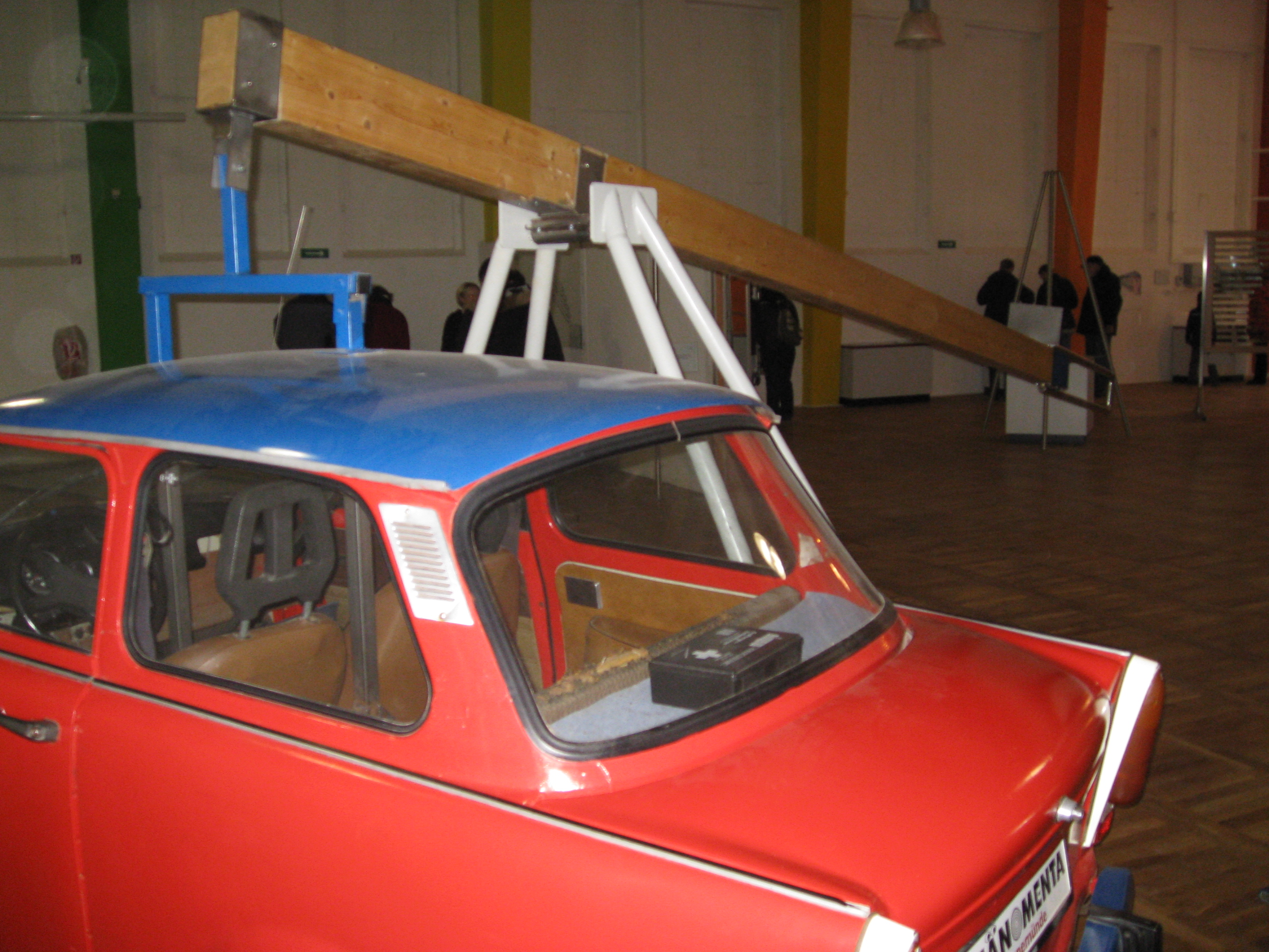 A Trabant 601 car that can easlily be lifted by one person using a lever. To be found at the Phänomenta exposition in Peenemünde.